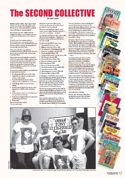 Page 17 of the best of Cane Toad Times published by ToadShow Pty Ltd 2005